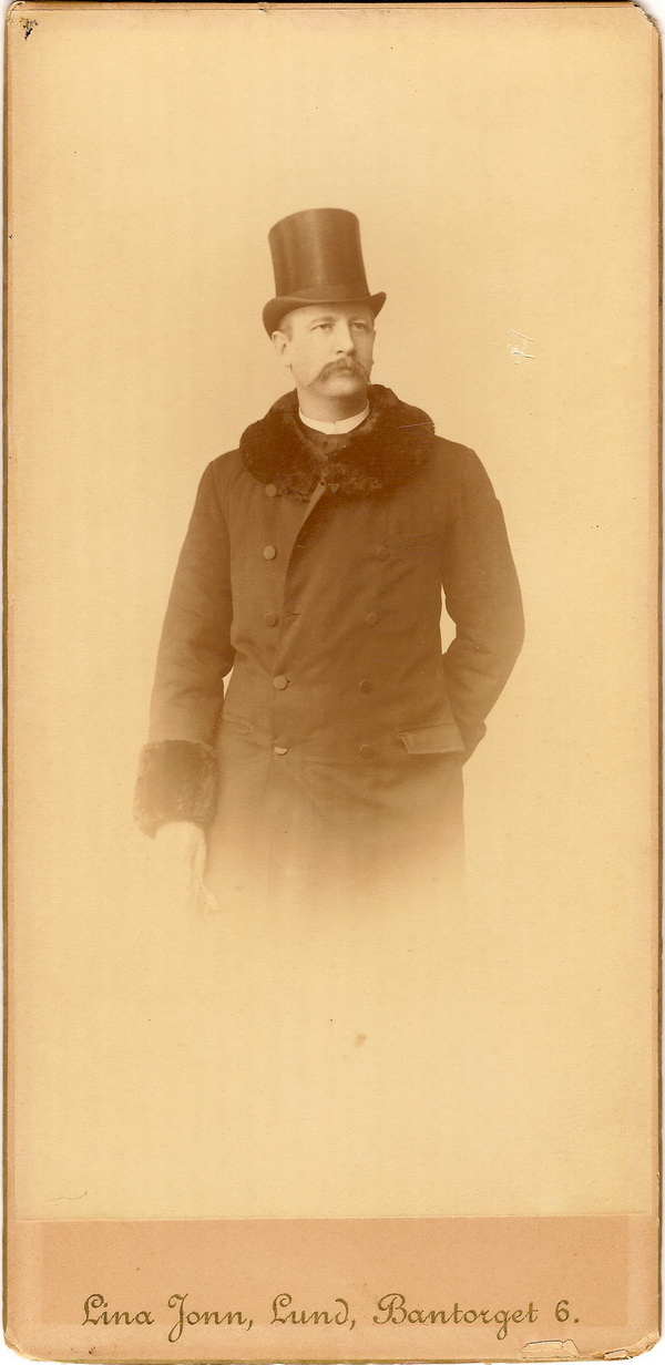 Carl Magnus Fürst (1854-1935), Swedish professor of anatomy at Lund University.